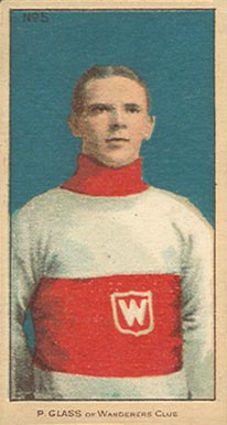 1910–11 Imperial Tobacco Co. hockey card #5 of Montreal Wanderers player Frank "Pud" Glass